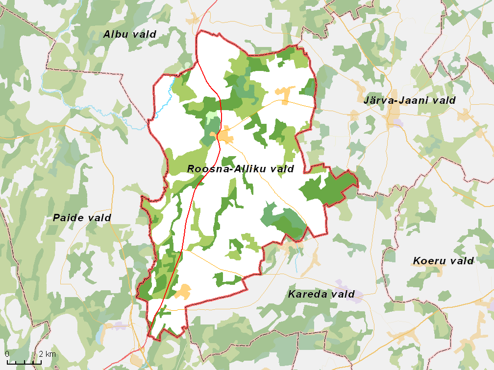 Map of municipality in Estonia